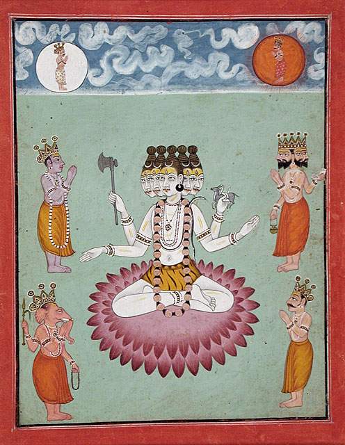 Adoration of Shiva, 1696, India, Himachal Pradesh, Nurpur, South Asia from LACMA museum. Painting; Watercolor, Opaque watercolor, gold, and silver on paper, Sheet: 9 1/8 x 7 3/8 in. (23.18 x 18.73 cm); Image: 7 5/8 x 5 7/8 in. (19.37 x 14.92 cm). Made in: India, Himachal Pradesh, Nurpur. Gift of Diandra and Michael Douglas (M.81.271.3) [1]